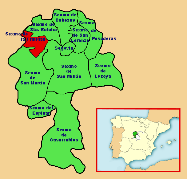 Map of Sexmo de la Trinidad in the medieval region of Comunidad de Villa y Tierra de Segovia.